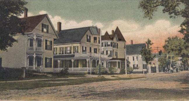 View of Main Street, Norway, Maine